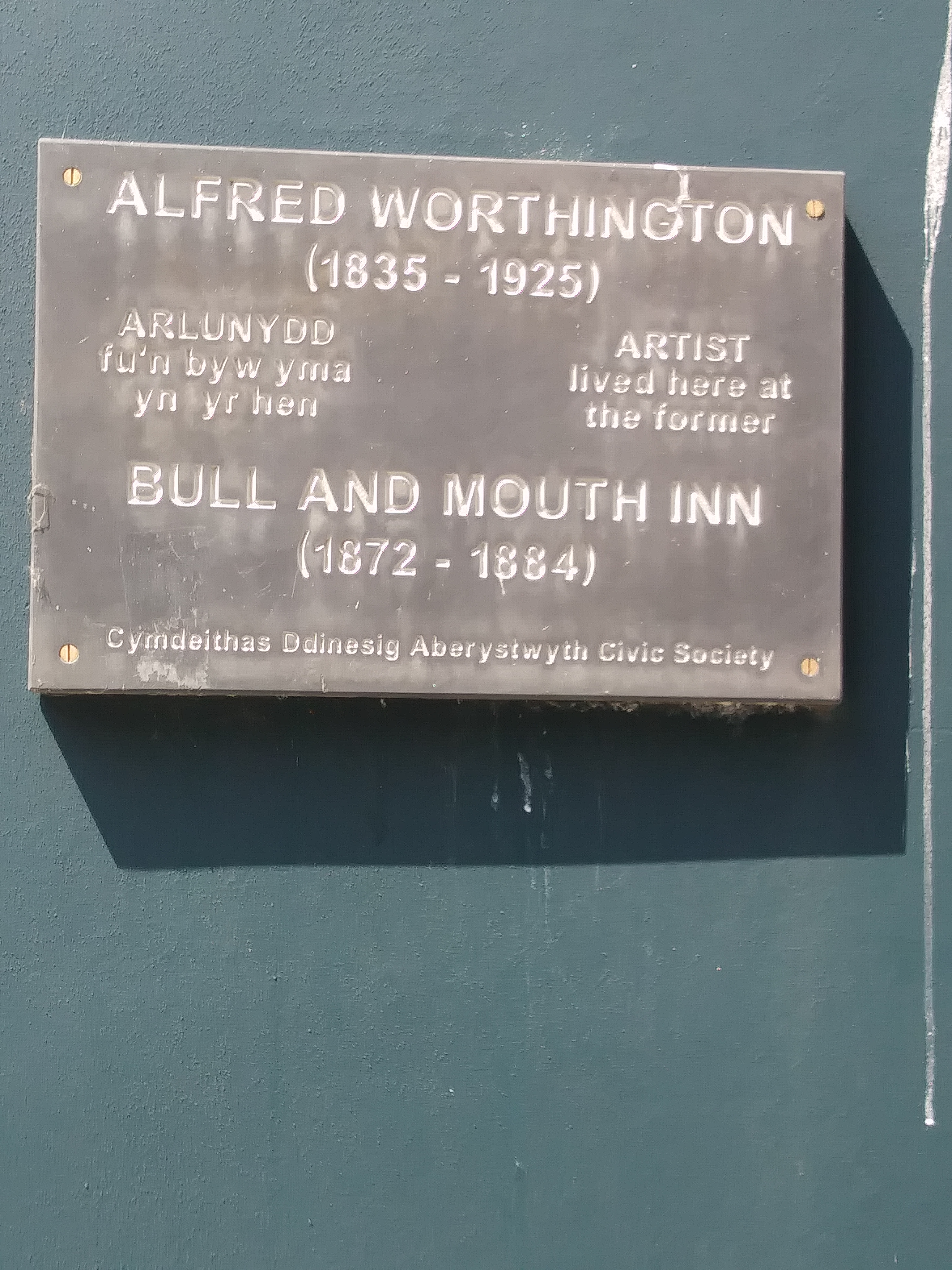 plaque Portland St, Aberystwyth